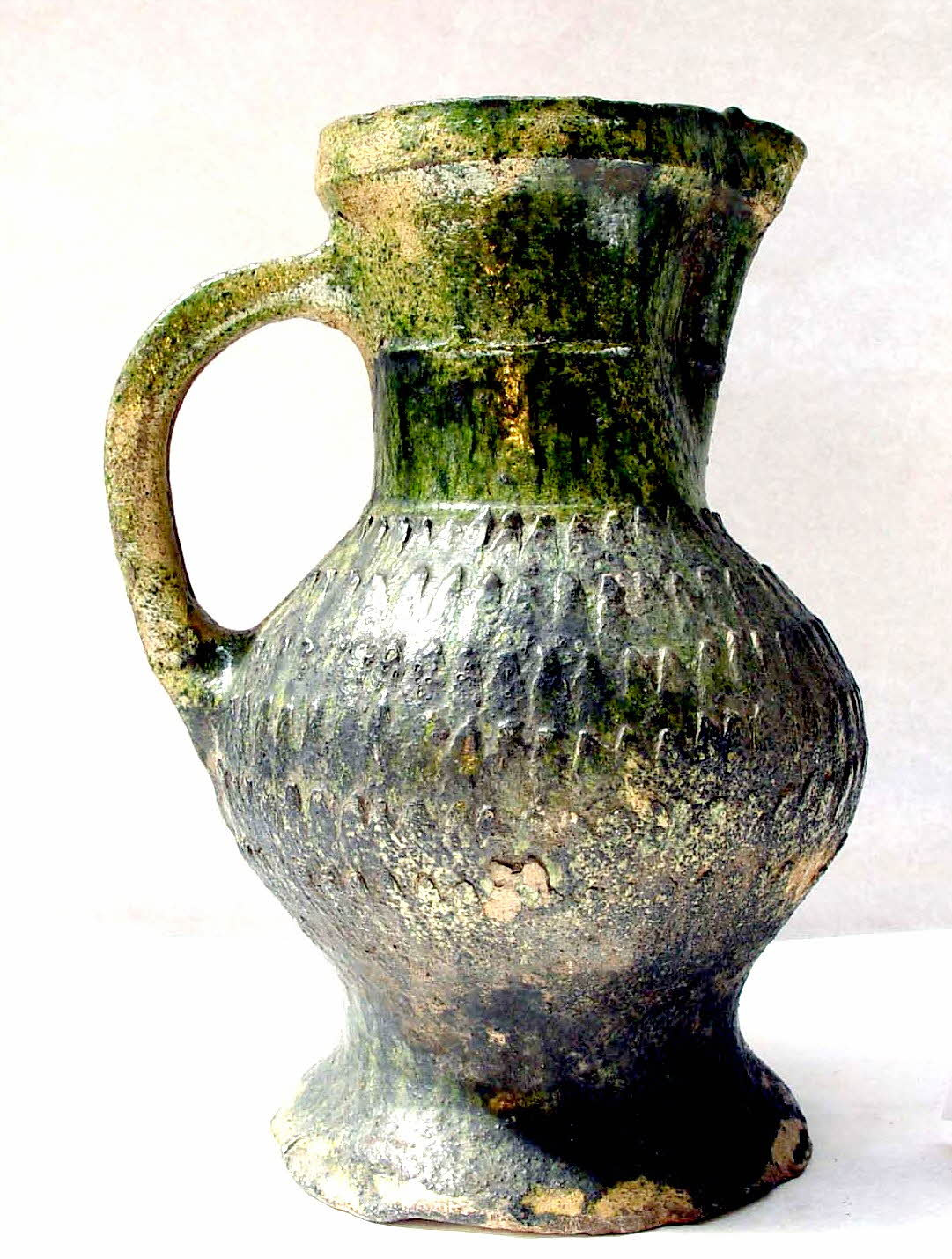 13th to 14th century Kingston-type ware biconical jug. Surrey whiteware. Green-glazed and decorated with overlapping scales. Height 22.6 cm.